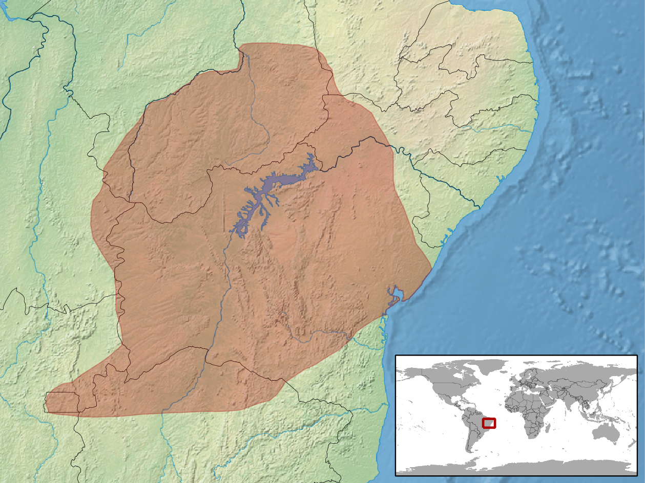 geographic distribution of Bothropoides lutzi (Native: Brazil (Bahia, Goiás, Maranhão, Minas Gerais, Pernambuco, Piauí, Tocantins))